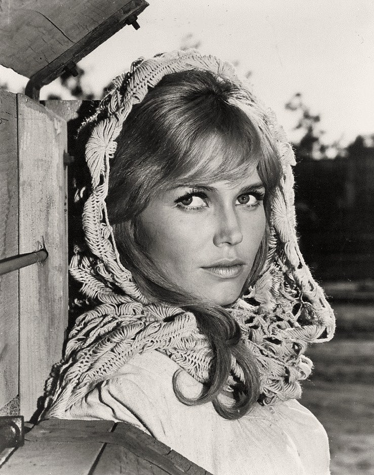 Margaret 'Maggie' Blye in Hombre - publicity still (cropped)